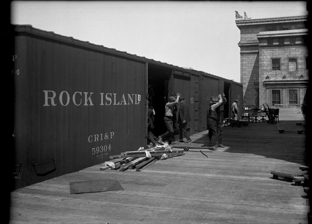 Rock Island Railroad train car CRI&P 59304 with three or four men carrying a piece of glass for exhibit case into the new Field Museum. Office chairs in background. Moving from Field Columbian to new building. Museum move series. 1920. Original size and material: 5x7 inch glass negative Digital Identifier: CSGN40541 Part of the Illinois Urban Landscapes Project